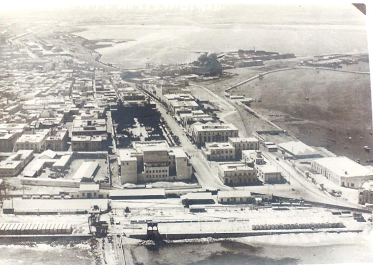 Old Benghazi, Libya, under the Italian colonial period, (therefore, pre-1945). Scan by Dennixo.